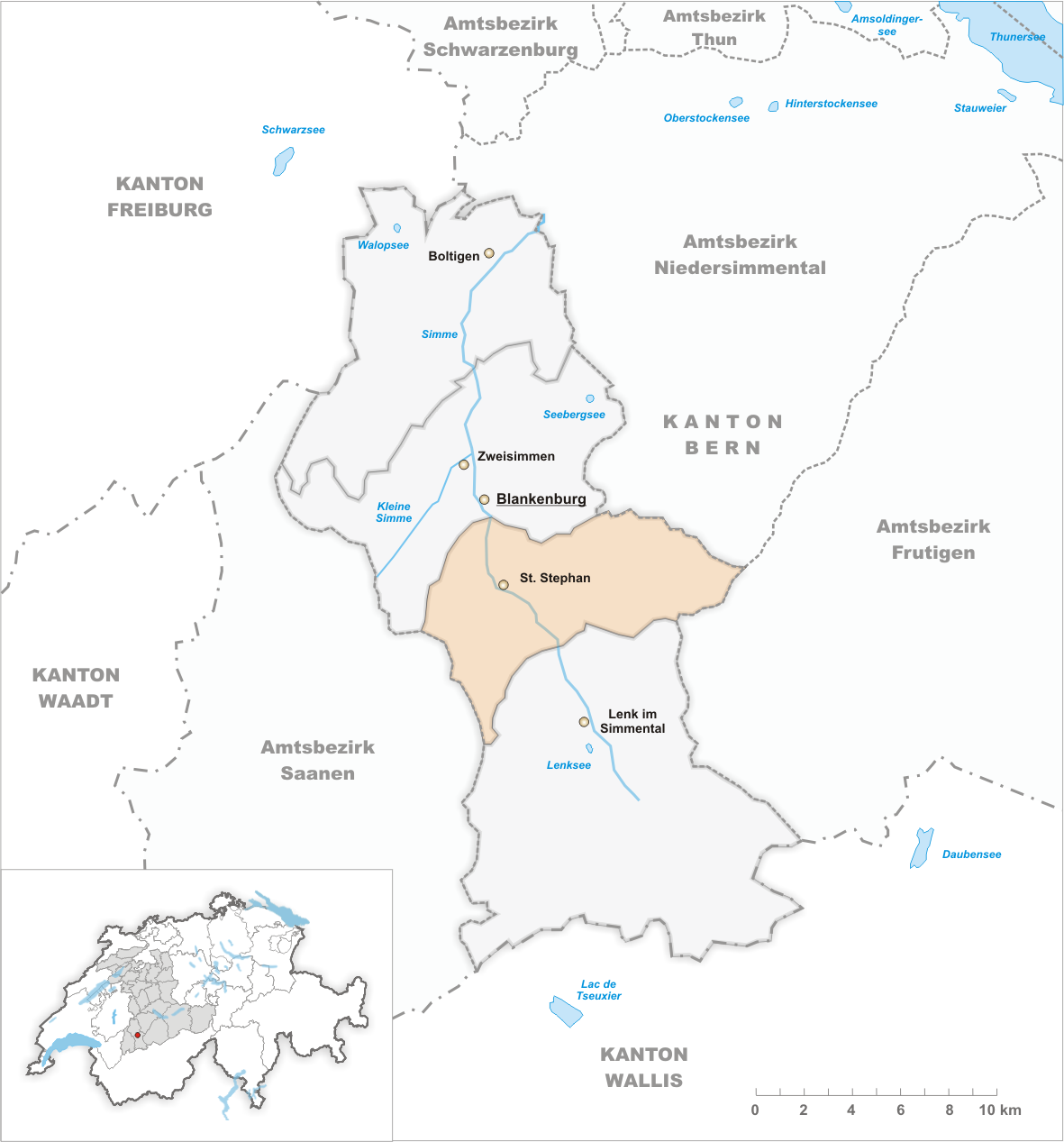 Municipality St. Stephan